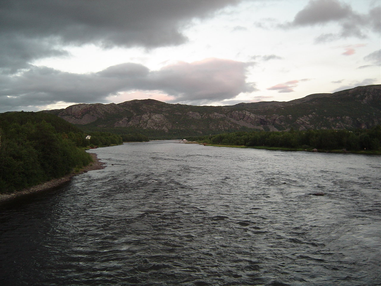 Altaelva river, Finnmark, Norway